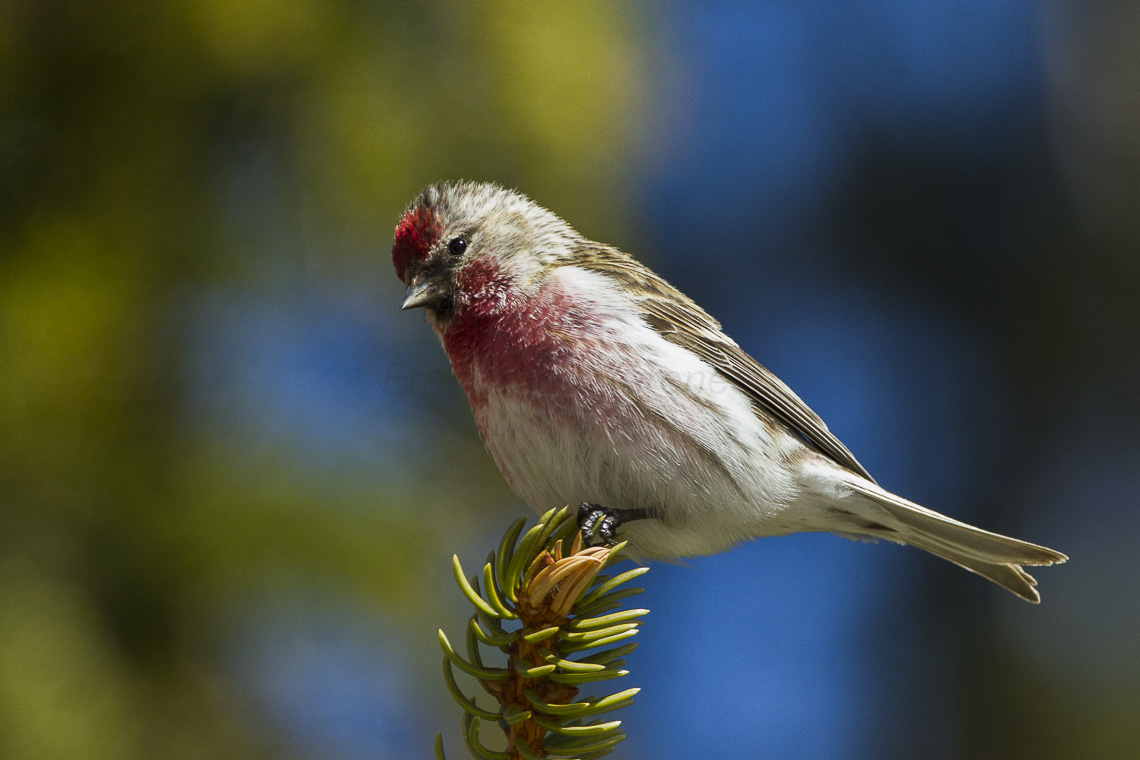 Lesser Redpoll Acanthis cabaret, Aosta Valley, Italy S4E3131